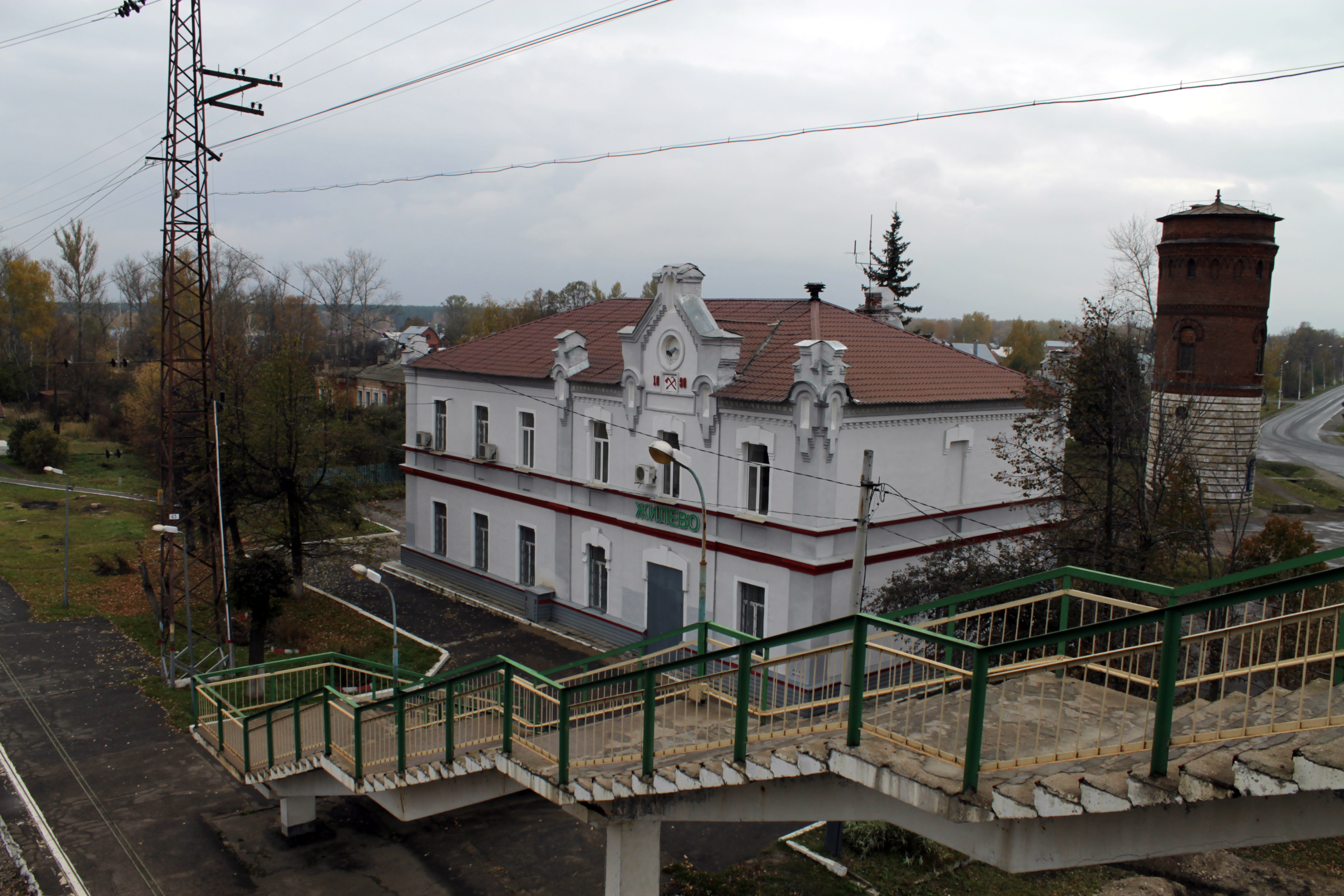 Main view to station building of Zhilevo